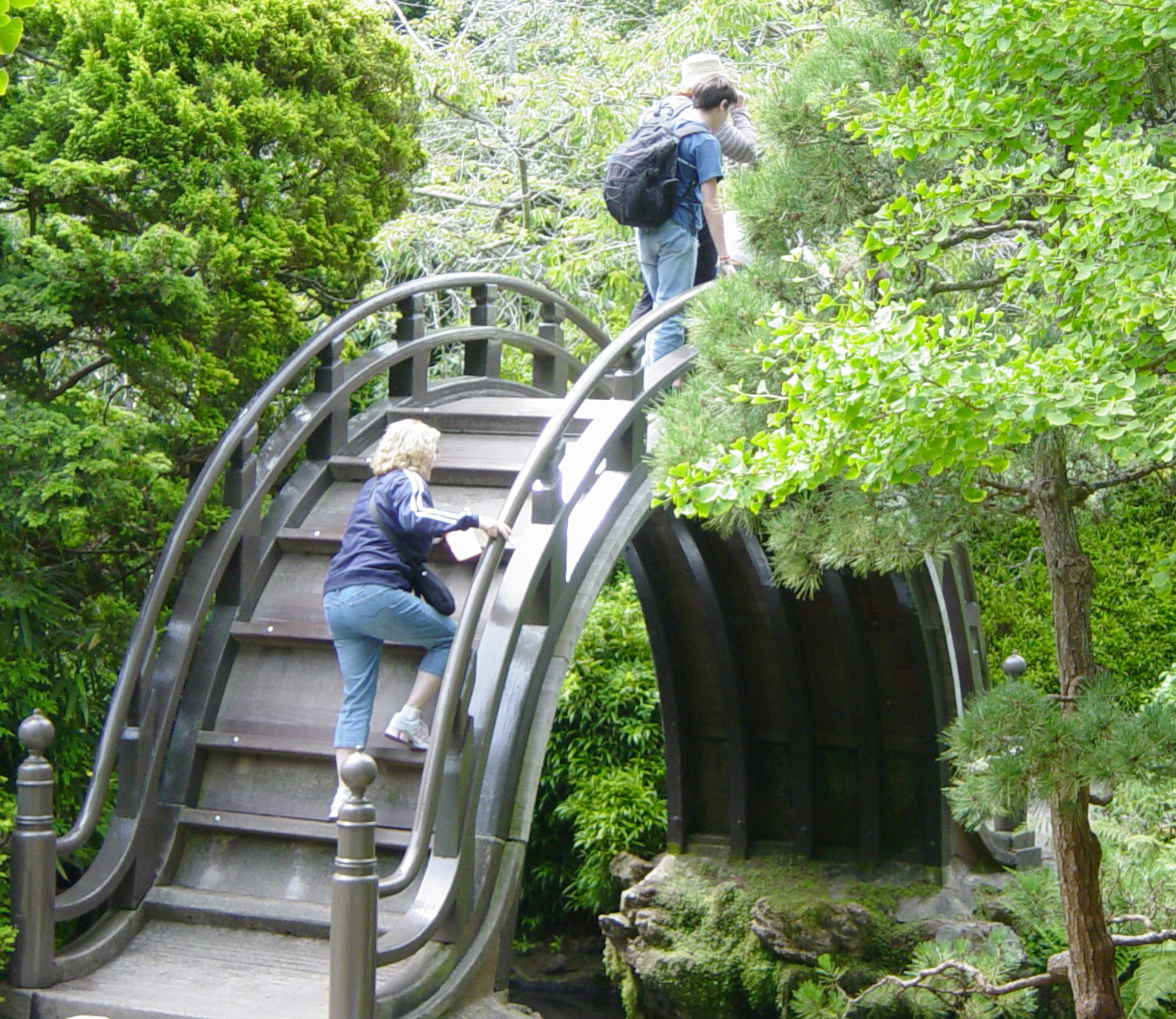 A moon bridge of wood, with ladder-like ascent and descent here is a decorative feature of San Francisco's Japanese Tea Garden. It is designed upon the principles of practical canal crossings found in China, of which only a few remain. Image taken July 24, 2005 by User:Leonard G.